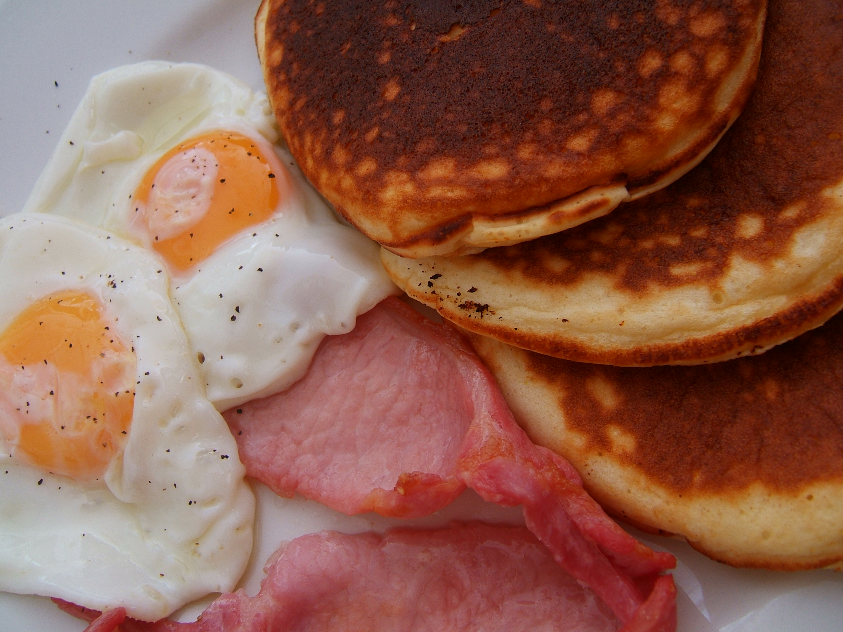 At Tallula's Tearooms, Brighton, England.